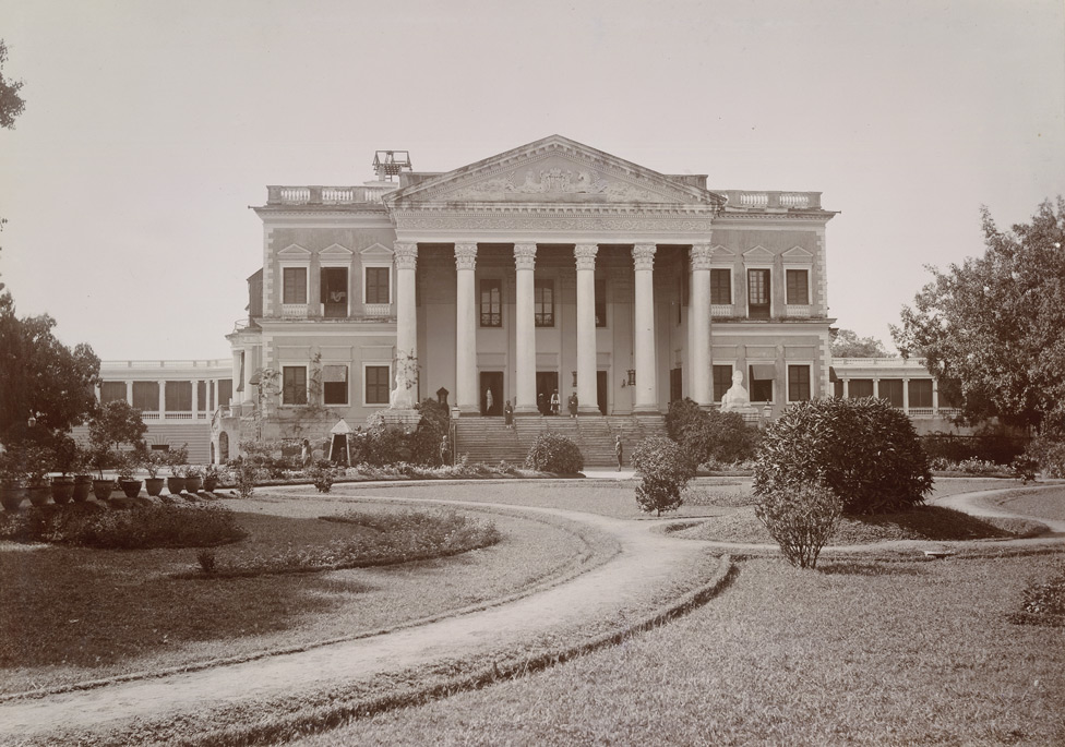 British Residency, Hyderabad (India) in the 1900's